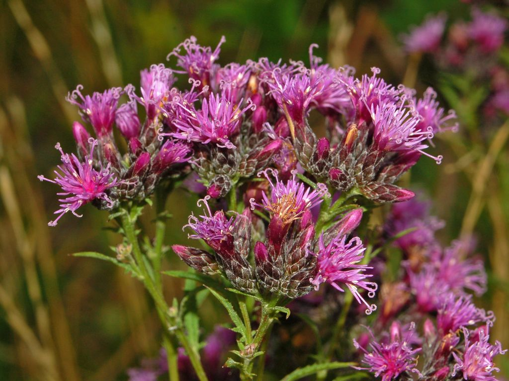 Serratula tinctoria - Piani di Praglia, Genova